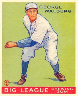 1933 Goudey baseball card of Rube Walberg of the Philadelphia Athletics #145. PD-not-renewed.